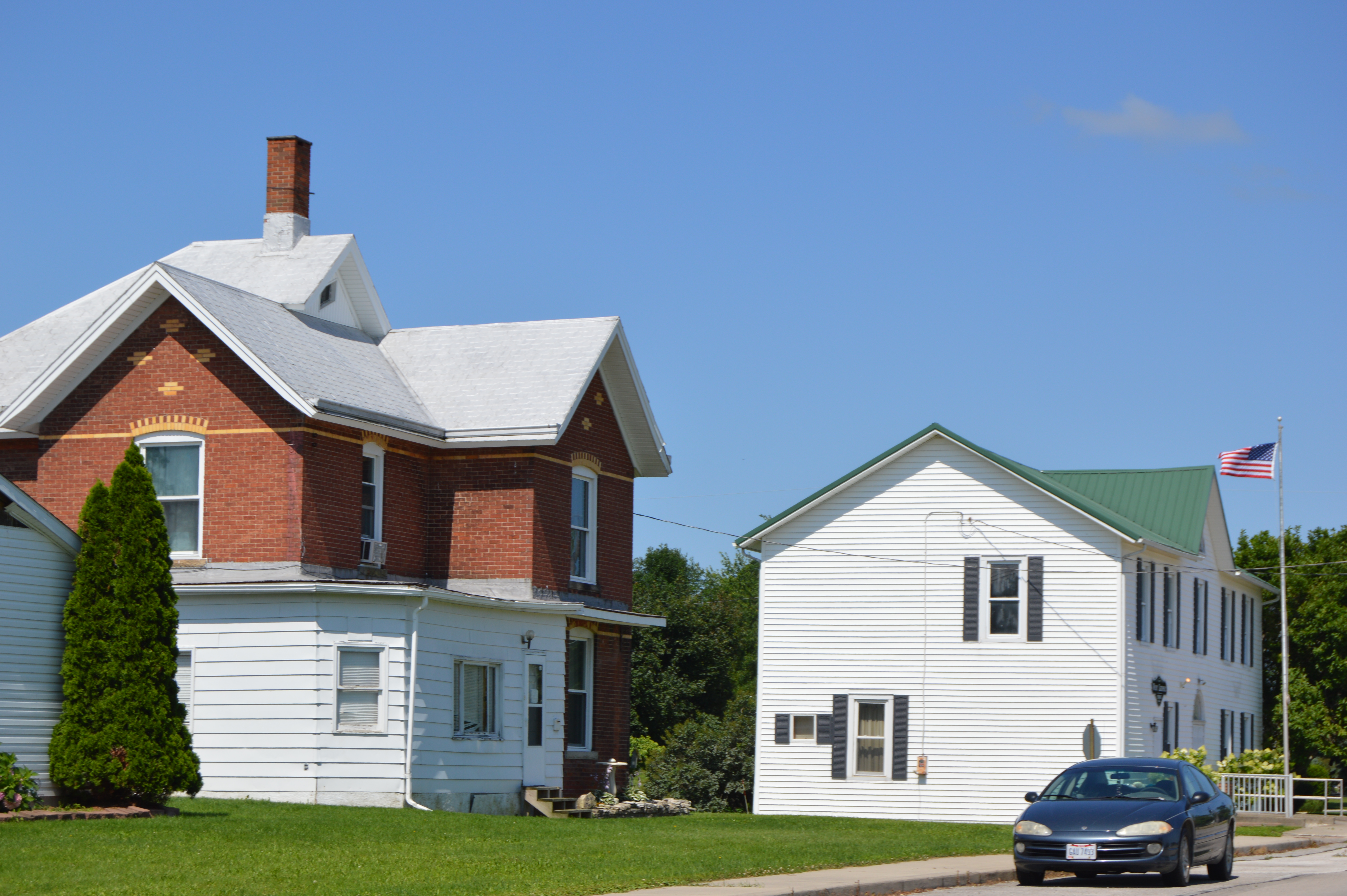 A house and the village hall, located on Main Street northwest of Sycamore Street in West Leipsic, Ohio, United States.